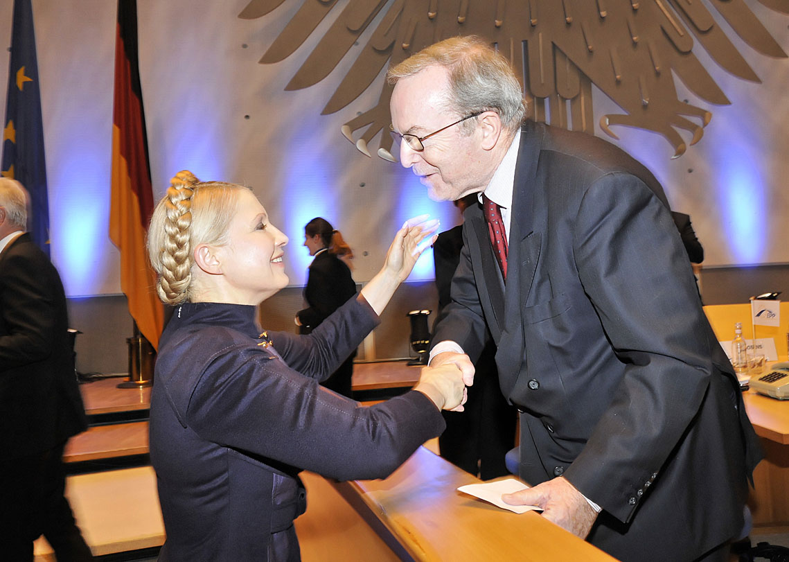 EPP Congress Bonn